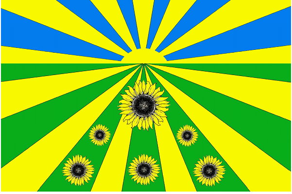 Flag of Ravetovskoye municipality in Starominskaya raion, Krasnodar krai, Russia.